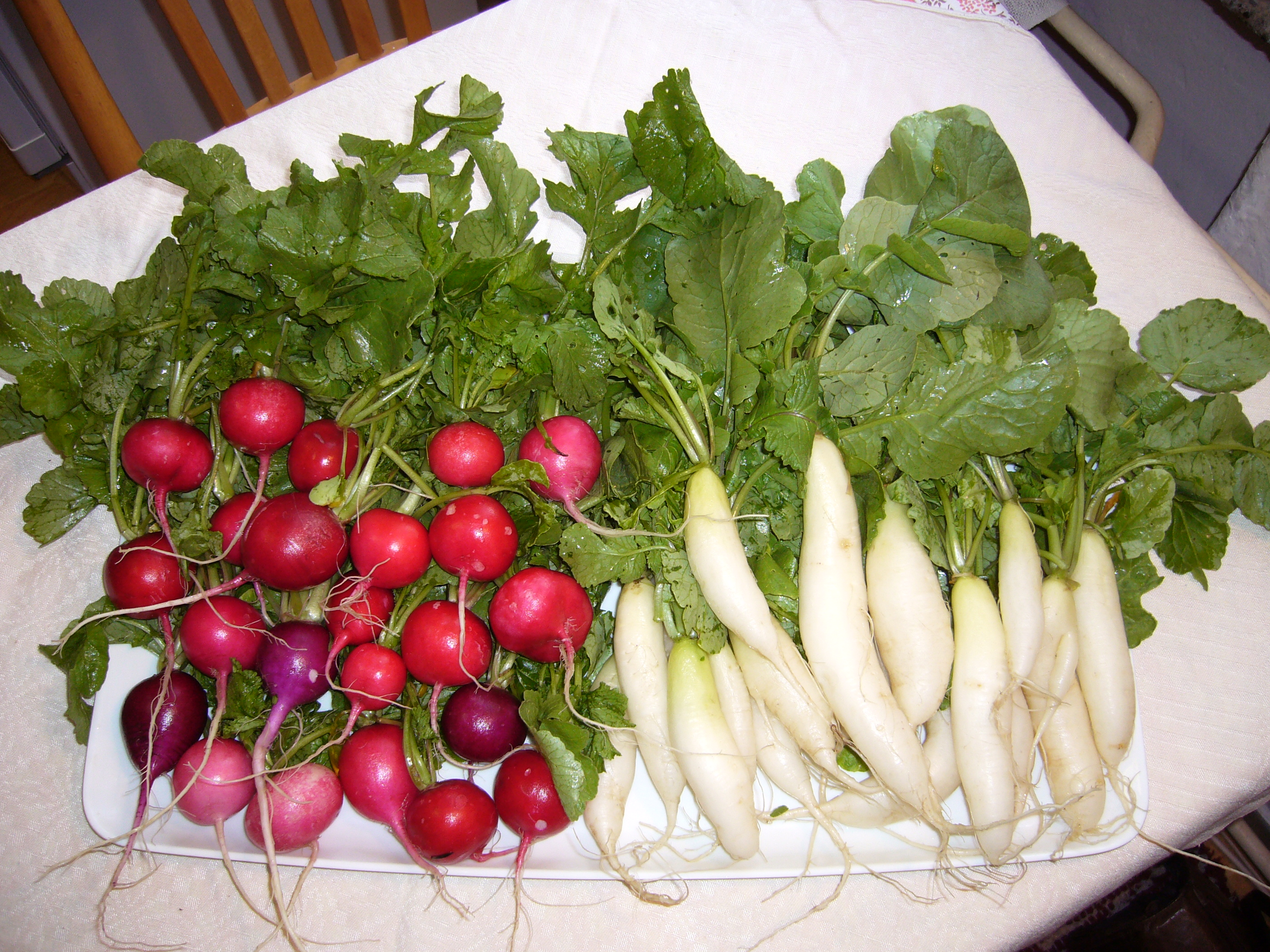 red and white variety of redish